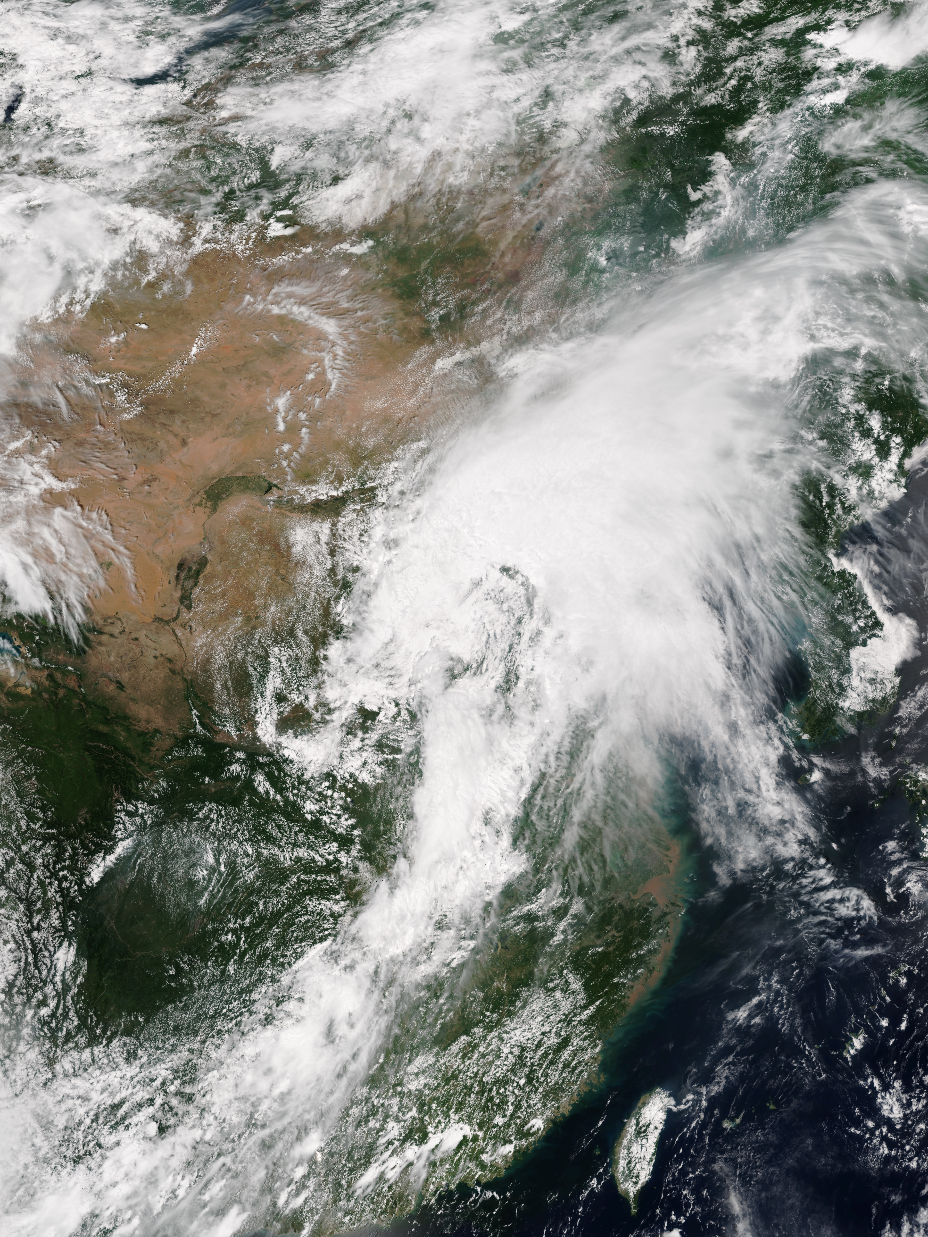 An extratropical cyclone over North China on July 20, 2016, which devastated the region with torrential rainfalls and severe floods.